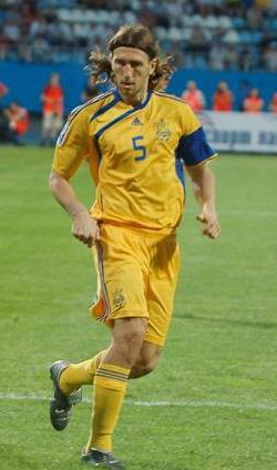 Dmytro Chygrynskiy in Ukraine national football team